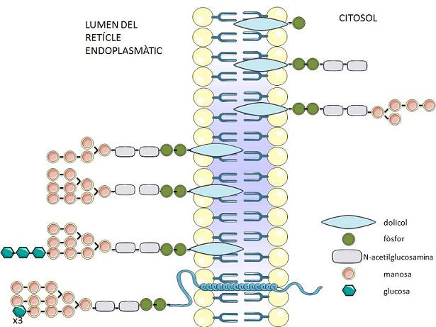 Oligosacharid and dolichol phosphate. Using Medical Art